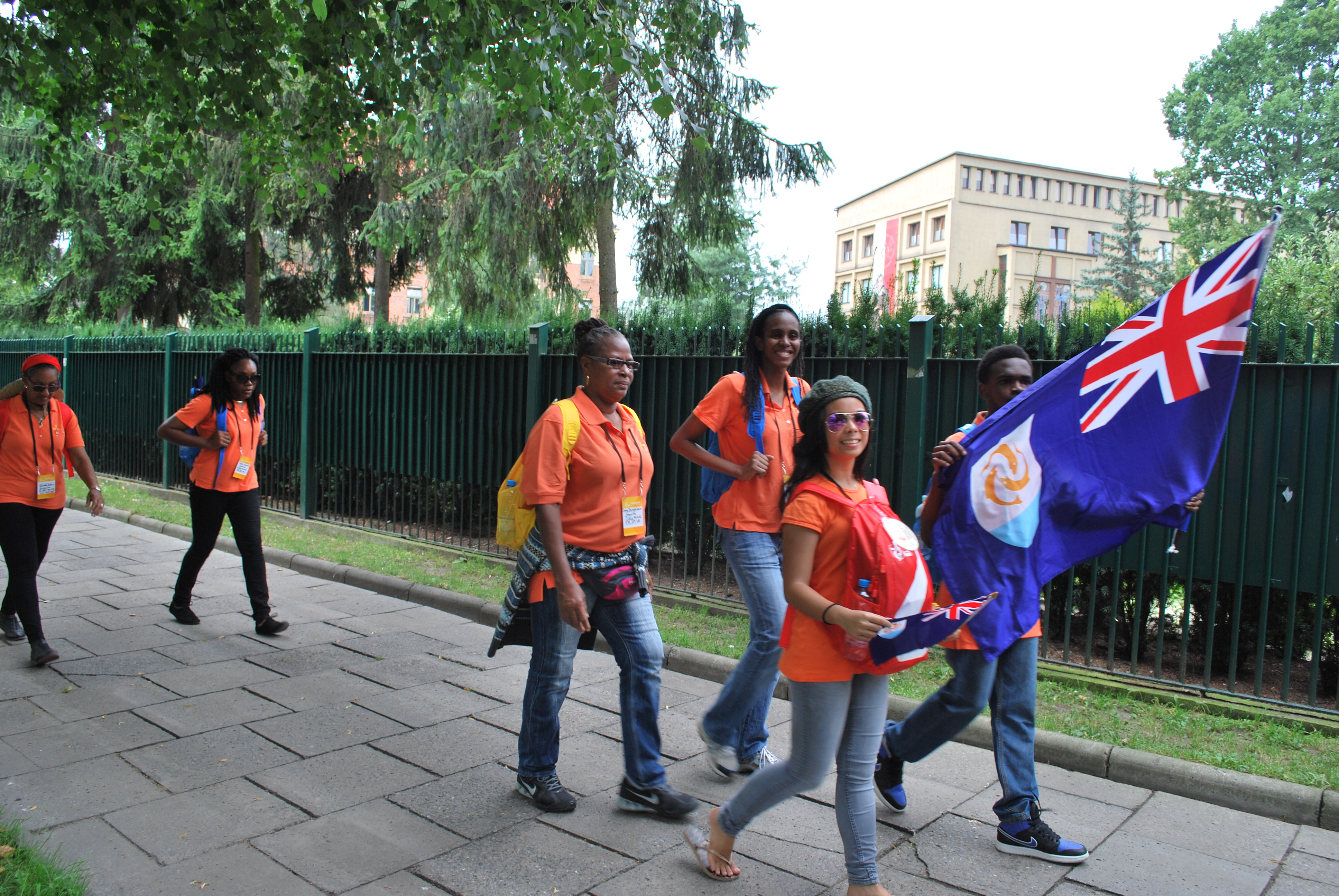 Youth from Anguilla, World Youth Day 2016 Krakow, Poland